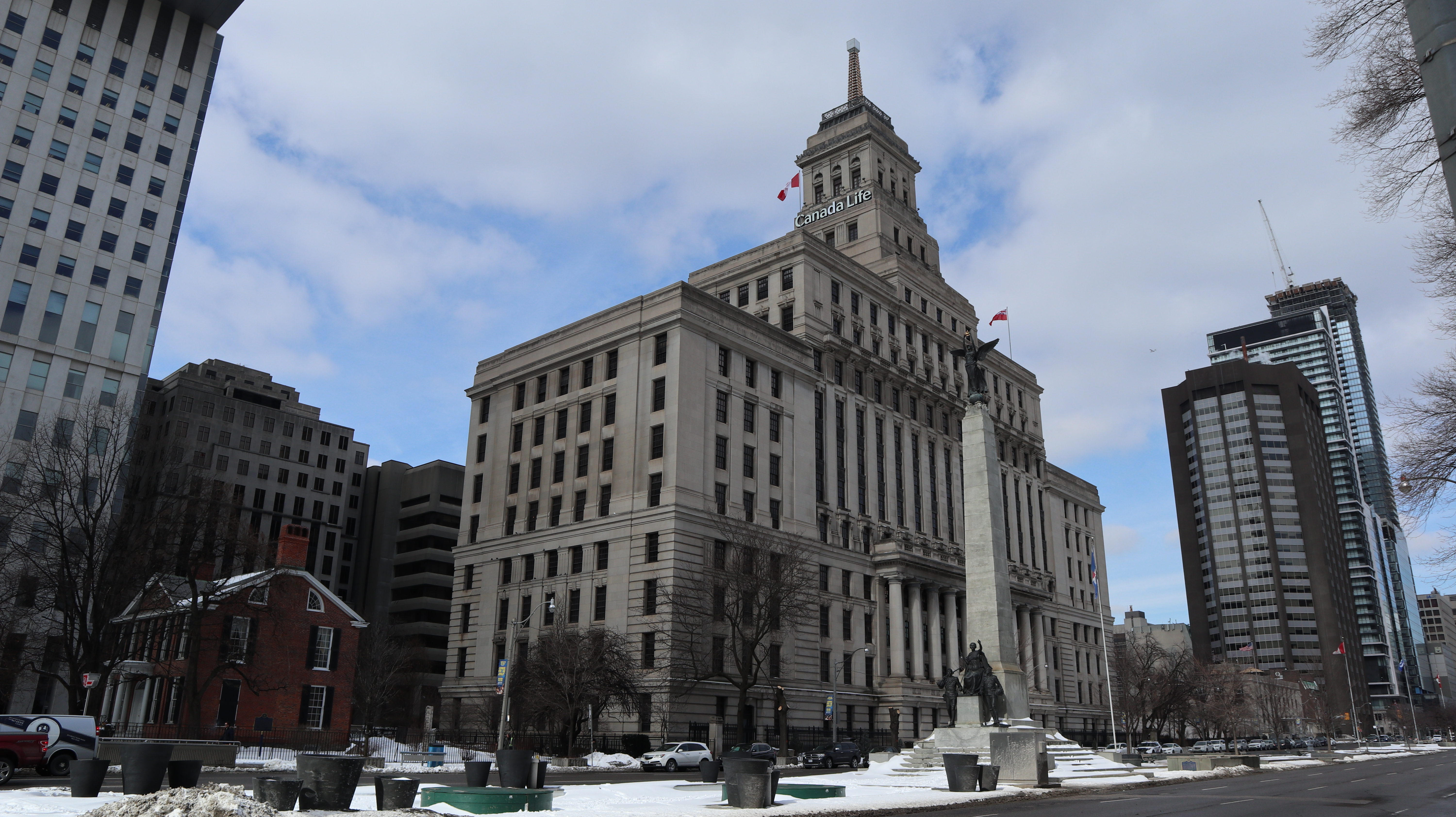 The Canada Life Building is a historic office building in Toronto, Ontario, Canada. The fifteen-floor Beaux Arts building was built by Sproatt & Rolph and stands at 285 feet (87 m), 321 feet (97.8 m) including its weather beacon (Wikipedia). Also on this image: Campbell House (on the left) and the South African War Memorial (the obelisk in front)